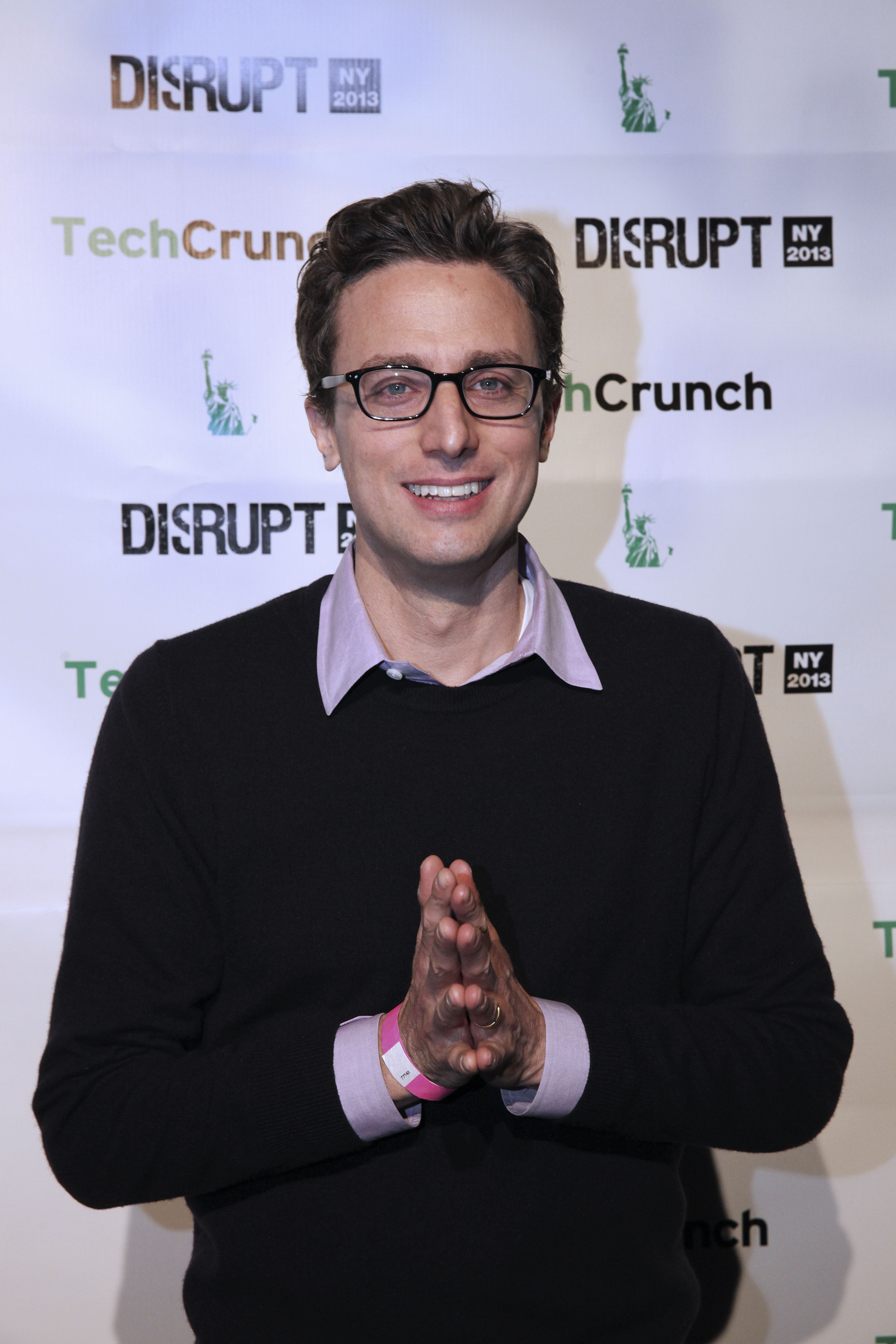 Jonah Peretti at TechCrunch Disrupt New York